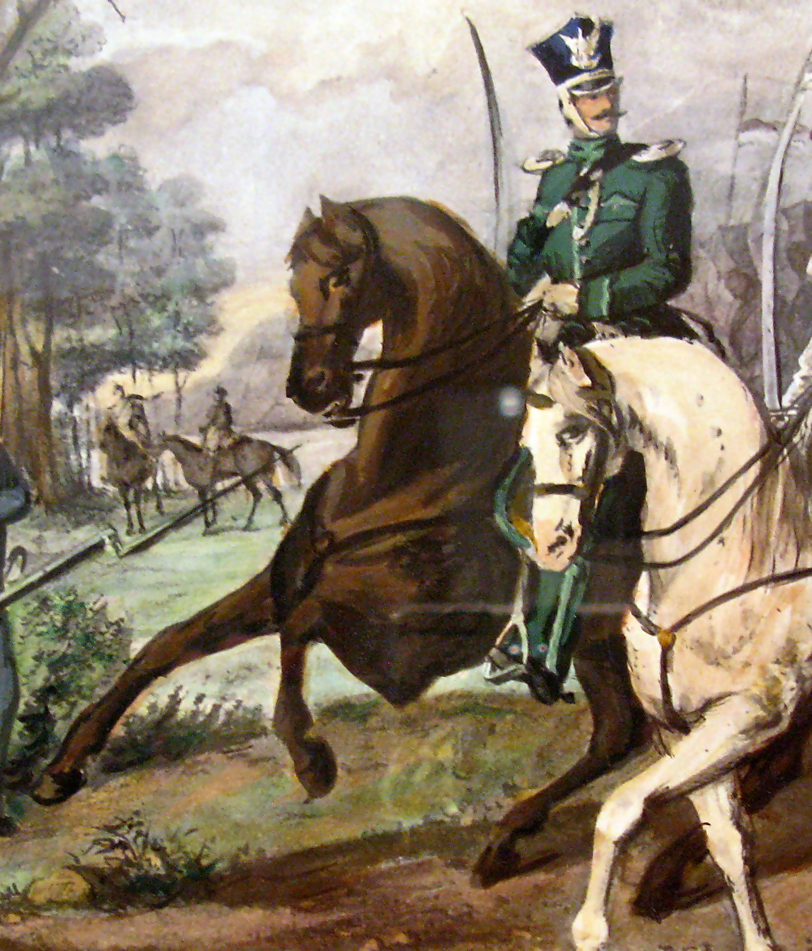 Cavalry of Kalisz of Polish Army during November Uprising